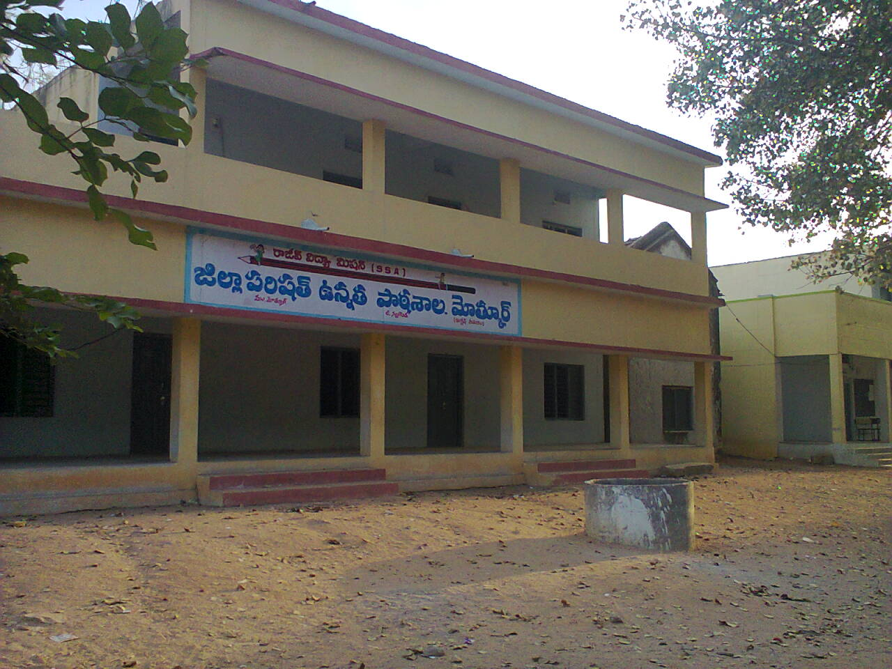 జిల్లా పరిషత్ ఉన్నత పాఠశాల